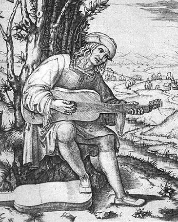 Viola da mano (vihuela de mano). Detail from an engraving by Marcantonio Raimondi, made before 1510. The poet Giovanni Filoteo Achillini playing the Viola da mano -- said to be after a lost original painting by Francesco Francia (who Raimondi trained under).